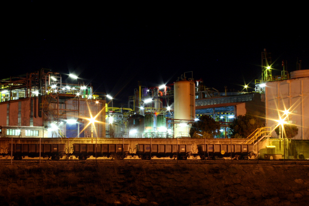 Solvay chemical factory at Martorell